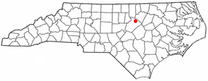 Category:North Carolina Dot Maps